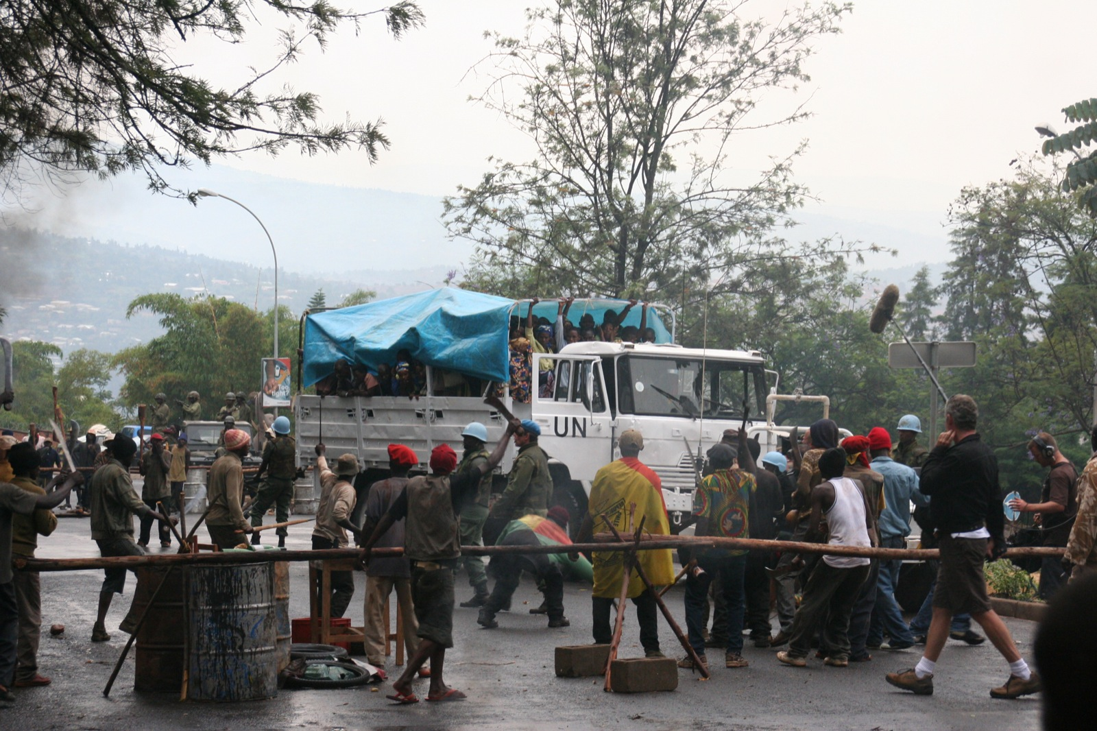 Photo of "Shake Hands with the Devil" being filmed in Kigali, shot by Scott Chacon, July 2006